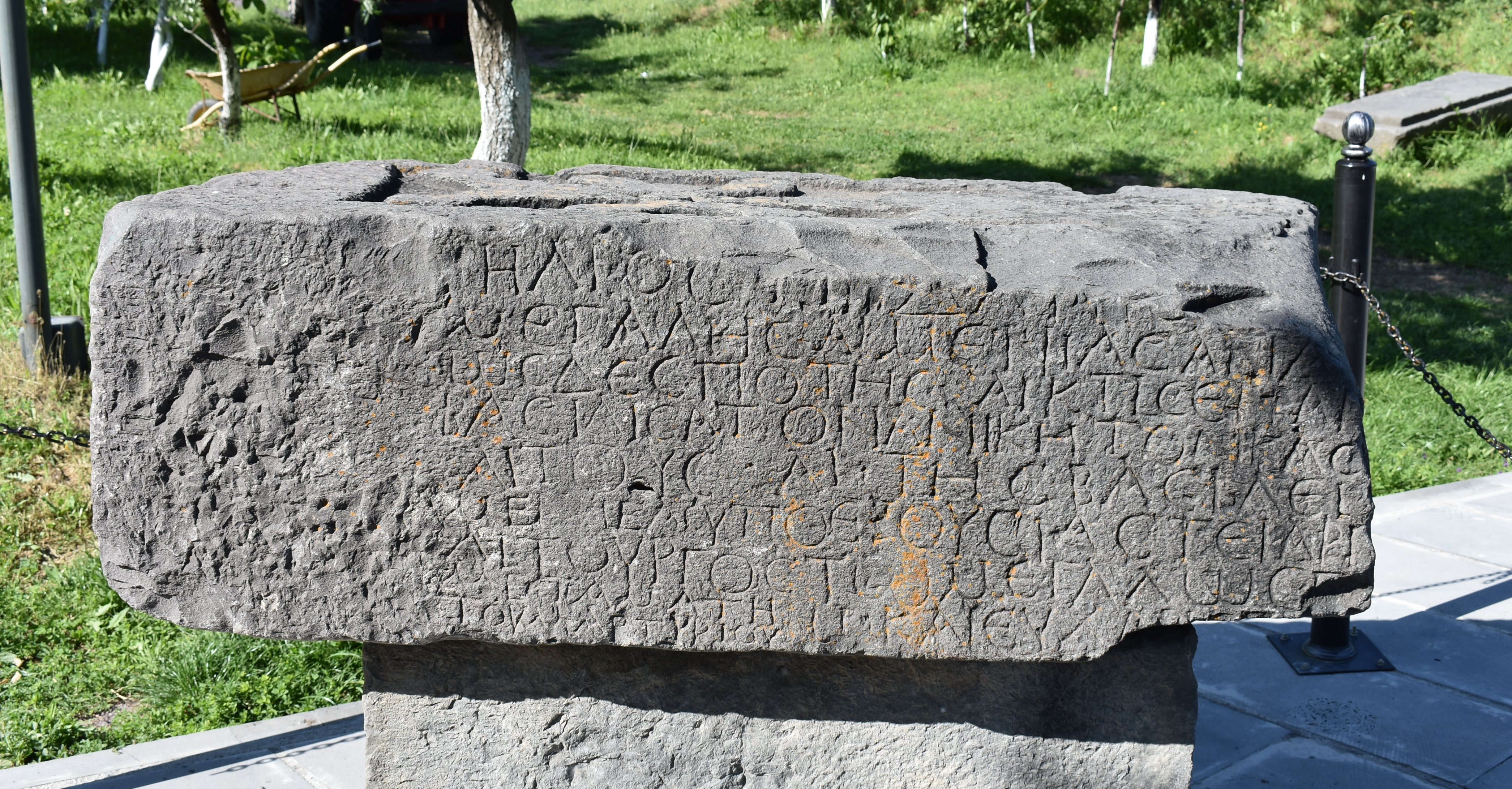 Greek inscription of King Tiridates I of Armenia, near the Temple of Garni